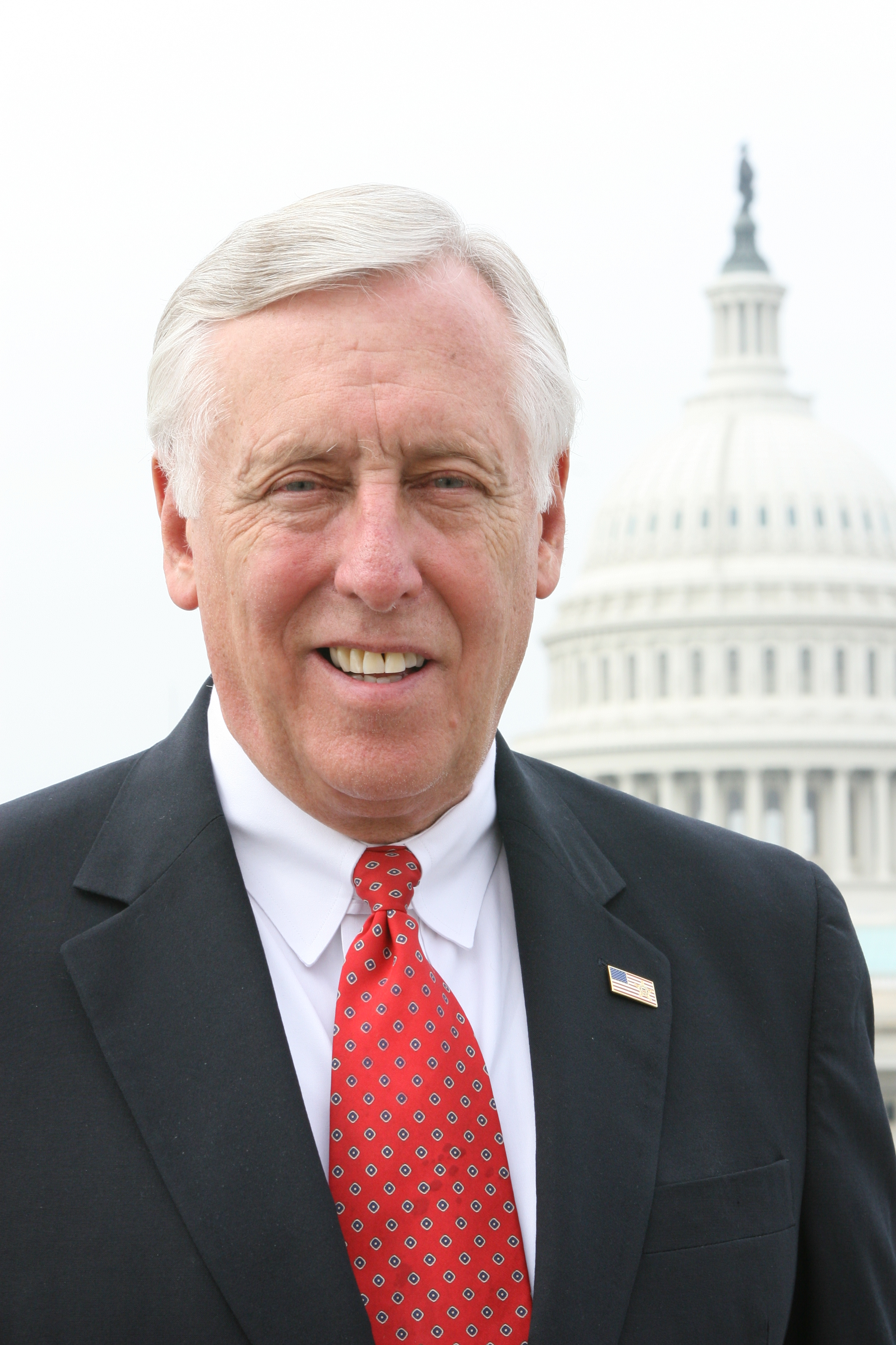 Steny Hoyer, official photo as House Minority Whip.